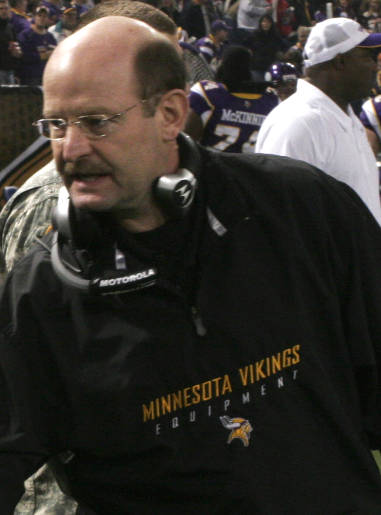 Former Minnesota Vikings head-coach Brad Childress